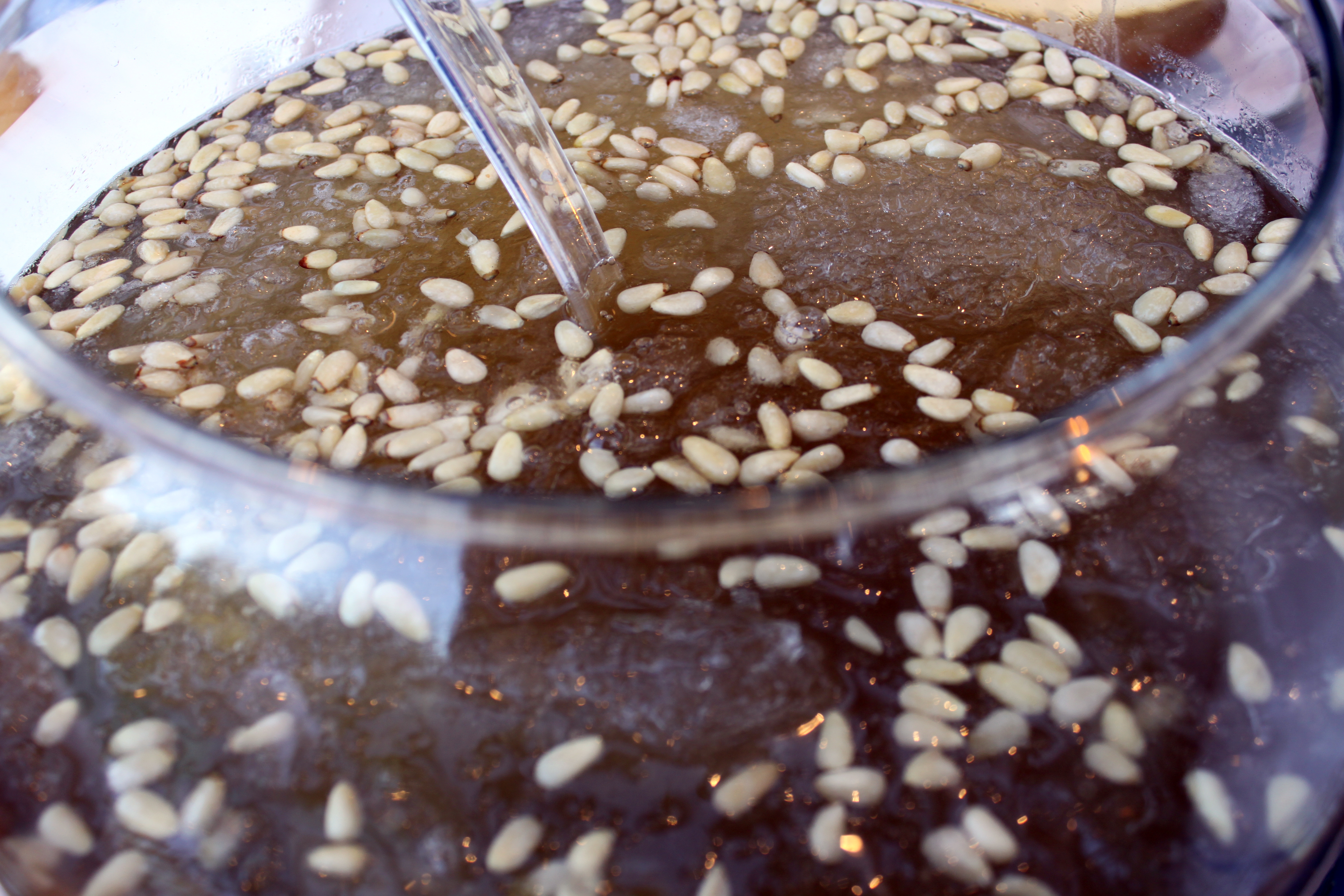 Foundation Day Celebration at Korean Ambassador's House on October 6, 2009.